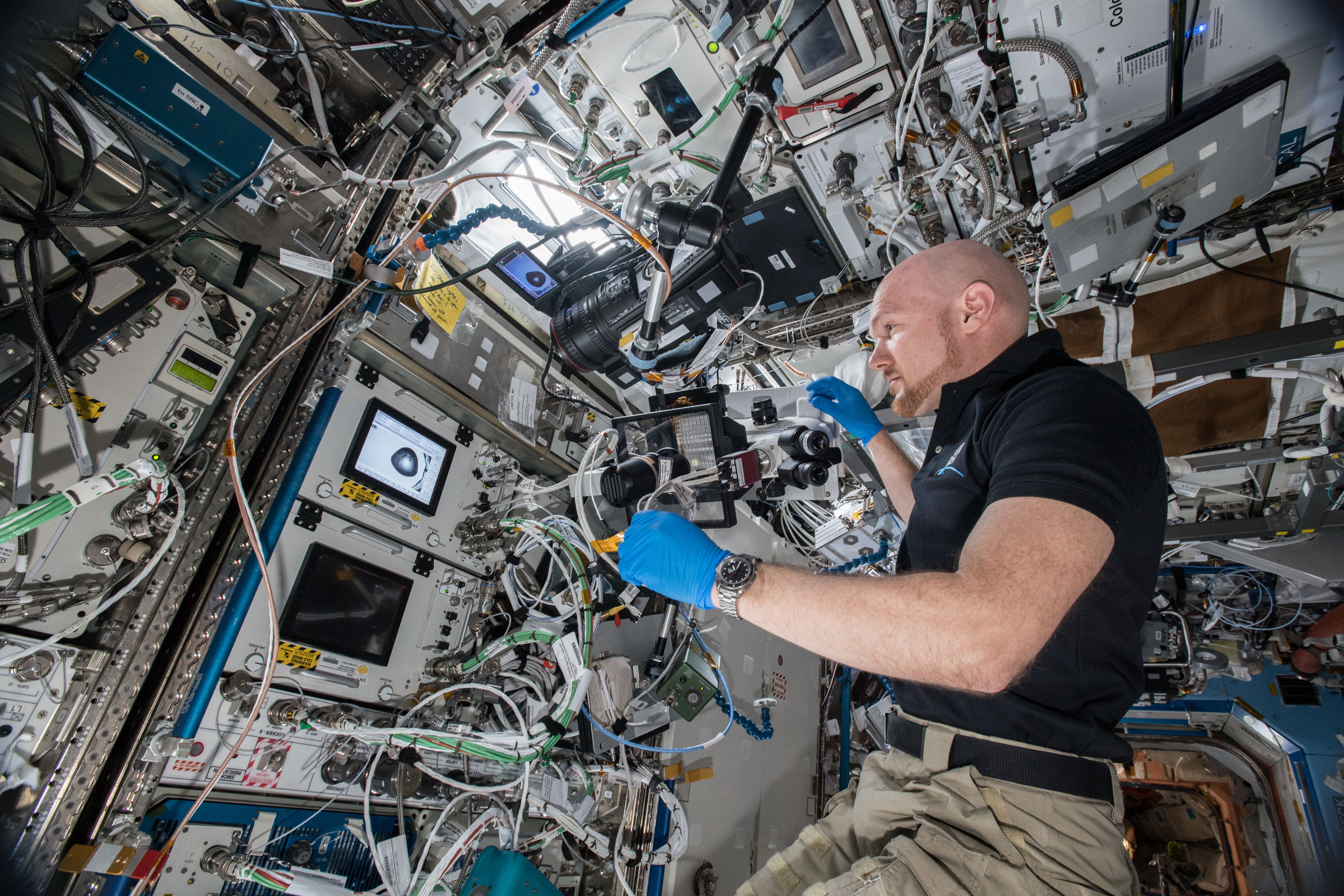 NASA astronaut and station commander Alexander Gerst working on the CASIS PCG-16 investigation. CASIS PCG-16 evaluates growth of LRRK2 protein crystals in microgravity, a protein implicated in Parkinson’s disease.